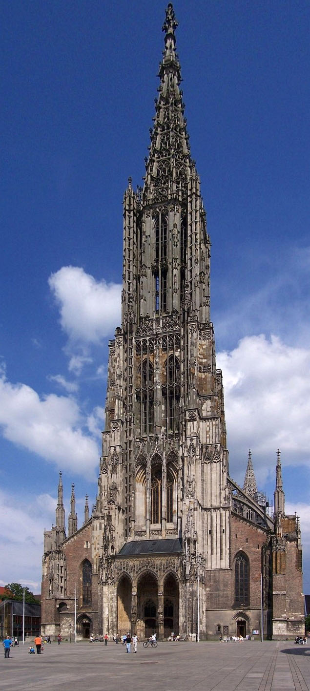 Ulm Münster